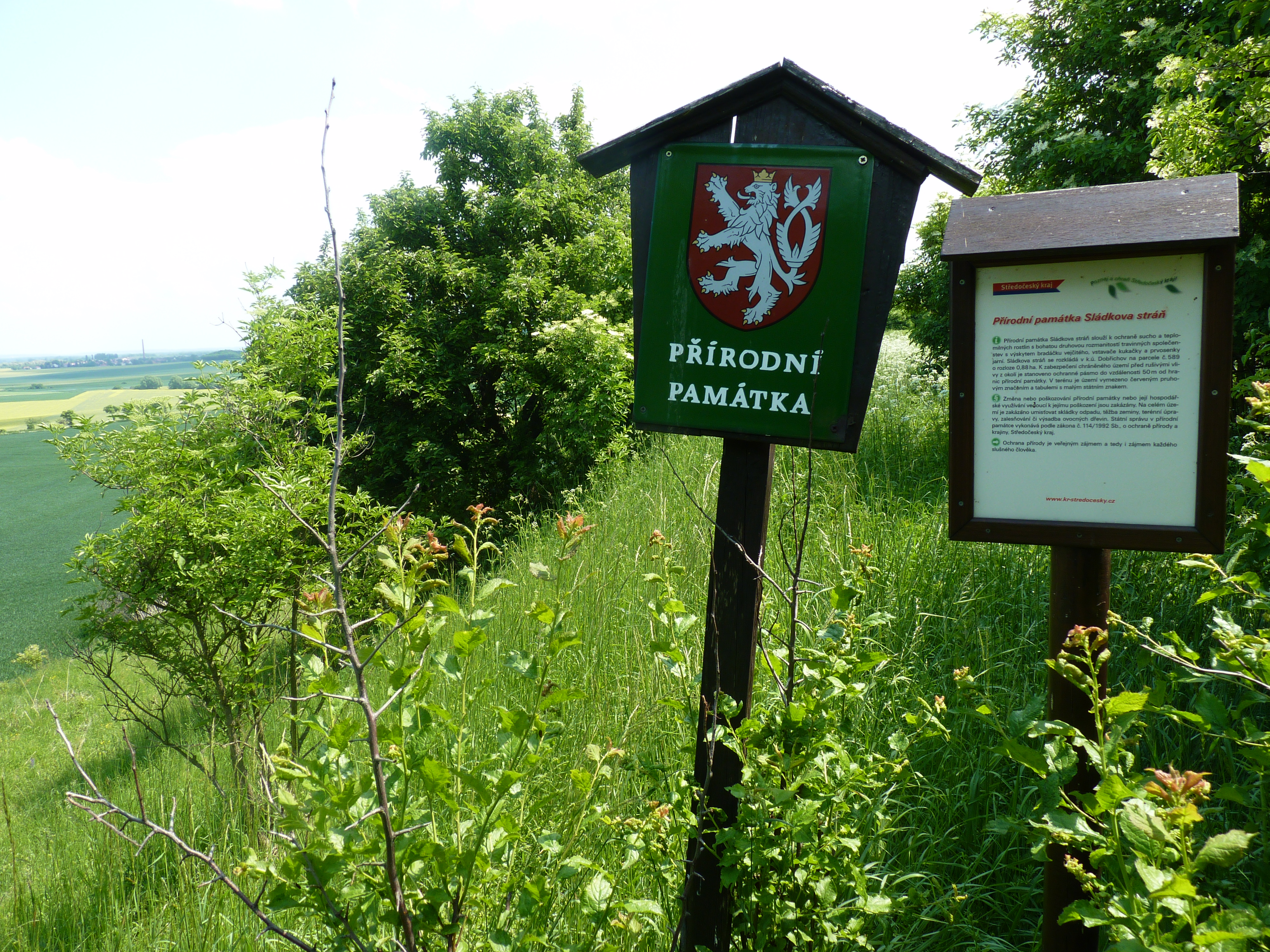 Natural monument Sládkova stráň